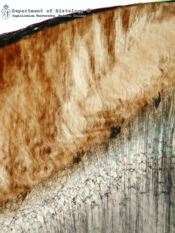 A cross-section through enamel (up) and dentine (down). Courtesy: Department of Histology, Jagiellonian University Medical College in Cracow [1]